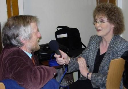 Christine Burns interviews Mark Rees for her regular Podcast about Equality and Diversity issues, "Just Plain Sense". Mark Rees (author of the book 'Dear Sir or Madam' and a one time Liberal Democrat Councillor for the Rusthall district of Tonbridge in Kent) was the first transsexual Briton to take the UK to the European Court of Human Rights in 1984, over the right to have a birth certificate recognising him as male